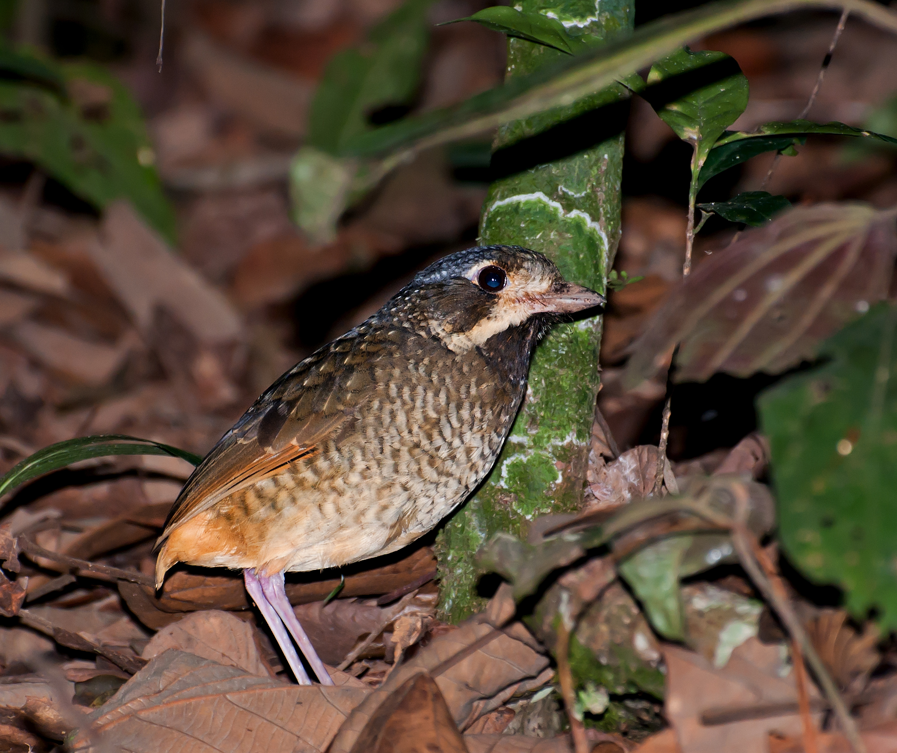 A Variegated Antpitta in Parque Estadual da Serra da Cantareira, São Paulo, Brazil.